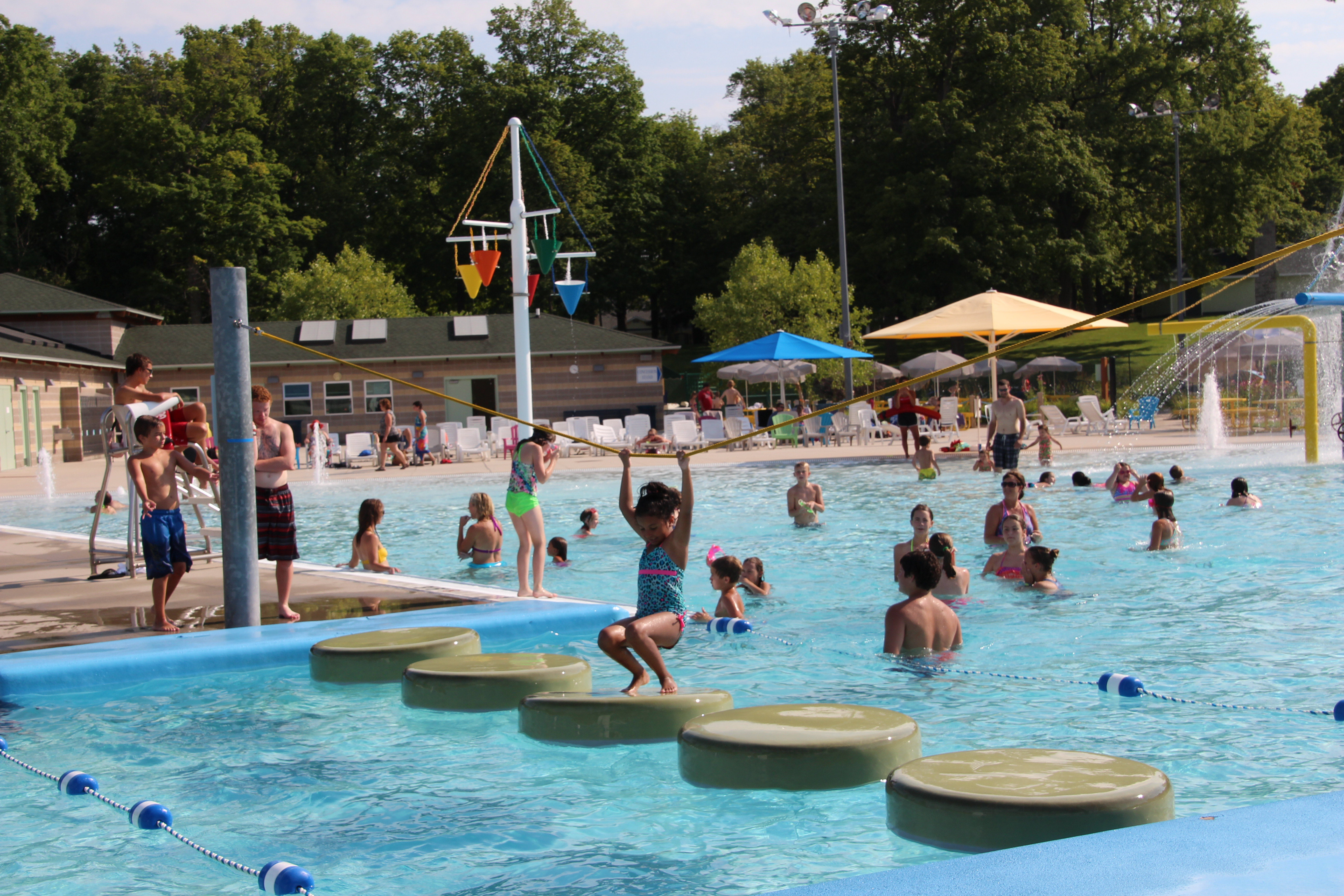 Plymouth Aquatic Center scene